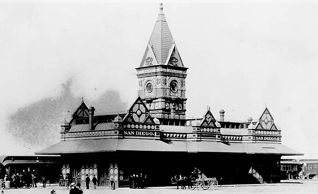 The AT&SF passenger Terminal in San Diego, California, prior to its being razed in 1915.